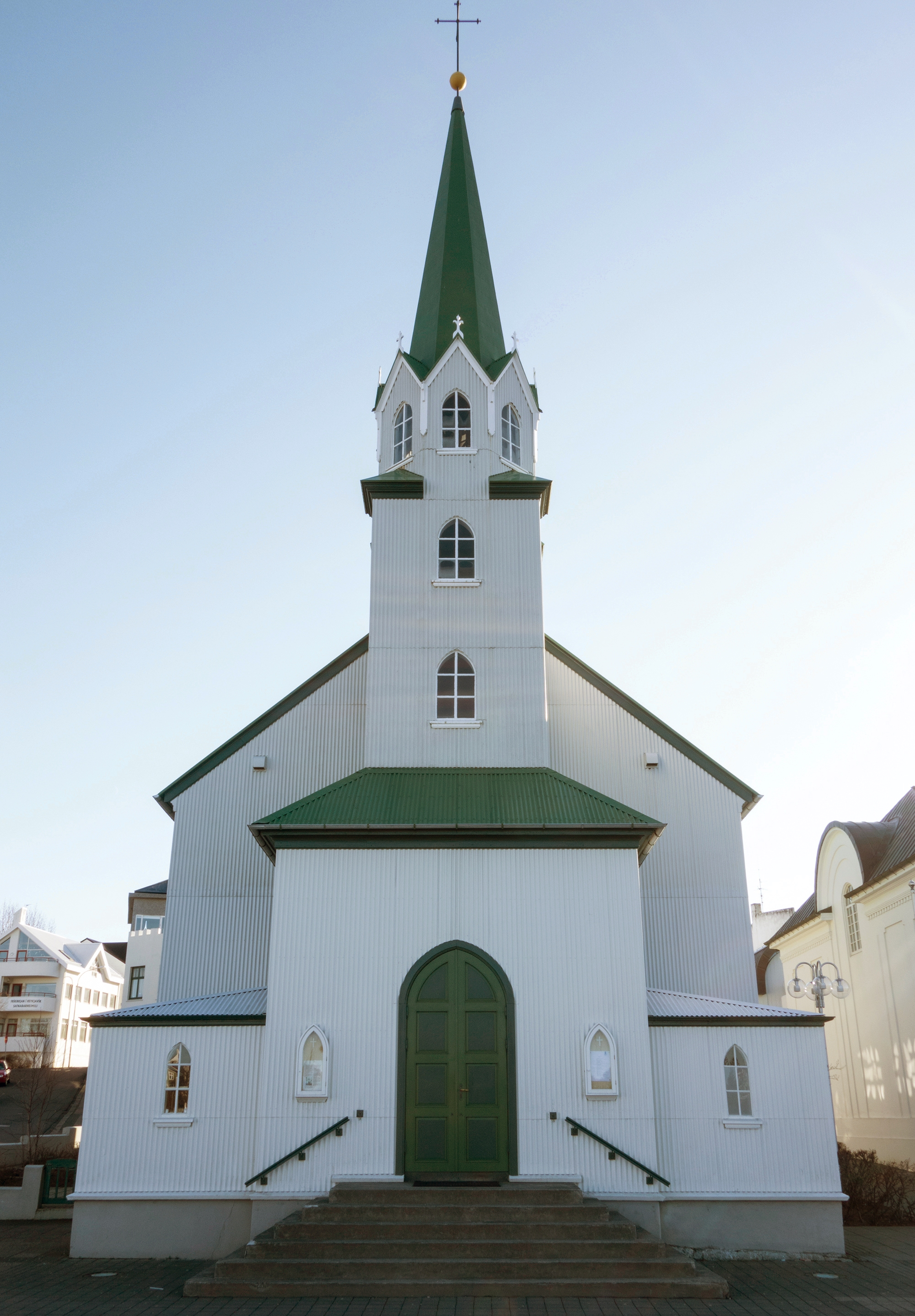 This is the picture of the front of the Fríkirkjan í Reykjavík (Free Church Reykjavik)